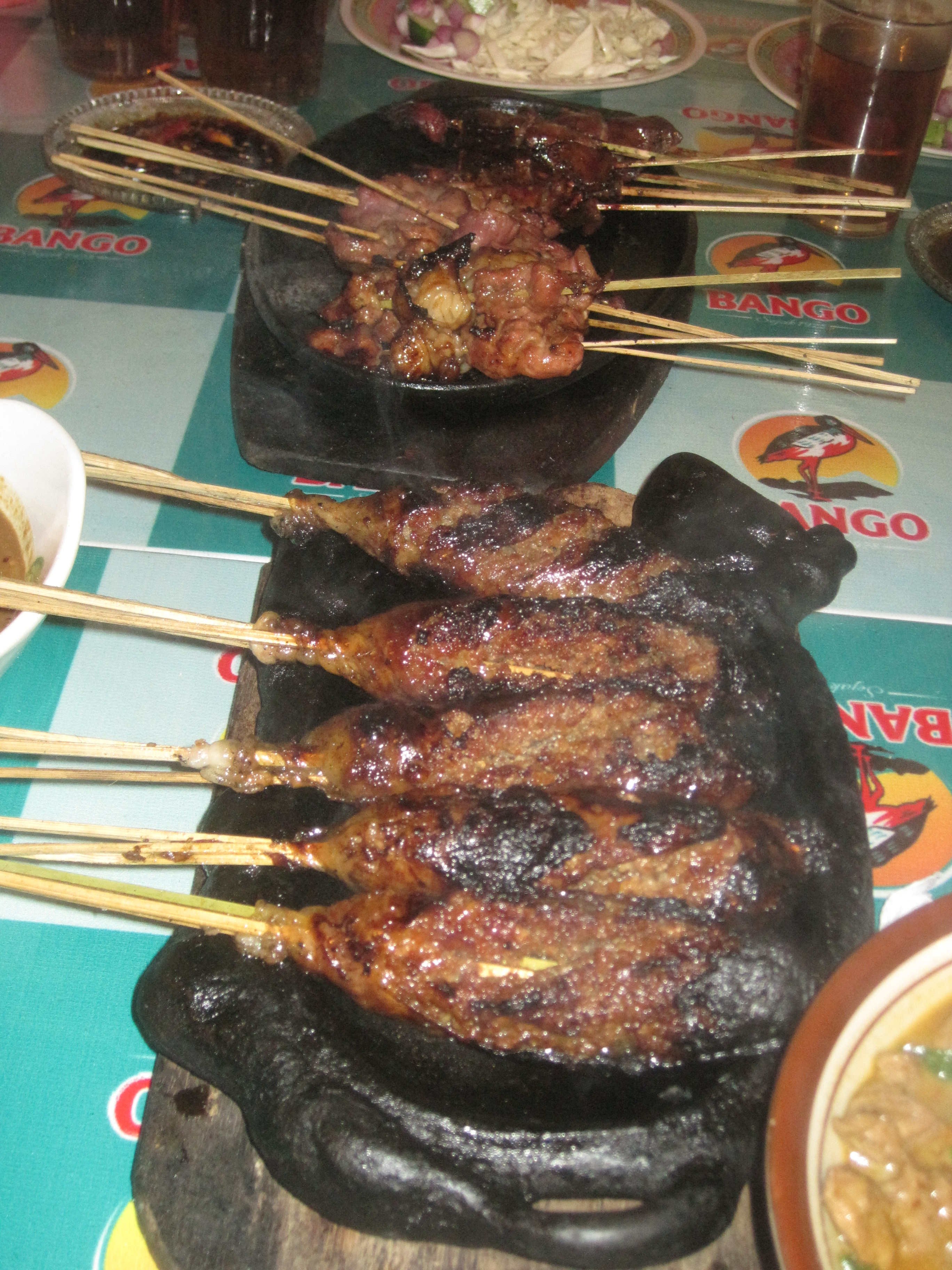 Sate Buntel at Sate Kardjan Bandung. The sate in the foreground is lamb, but ground like hamburger and then baked. In the background is lamb heart sate.